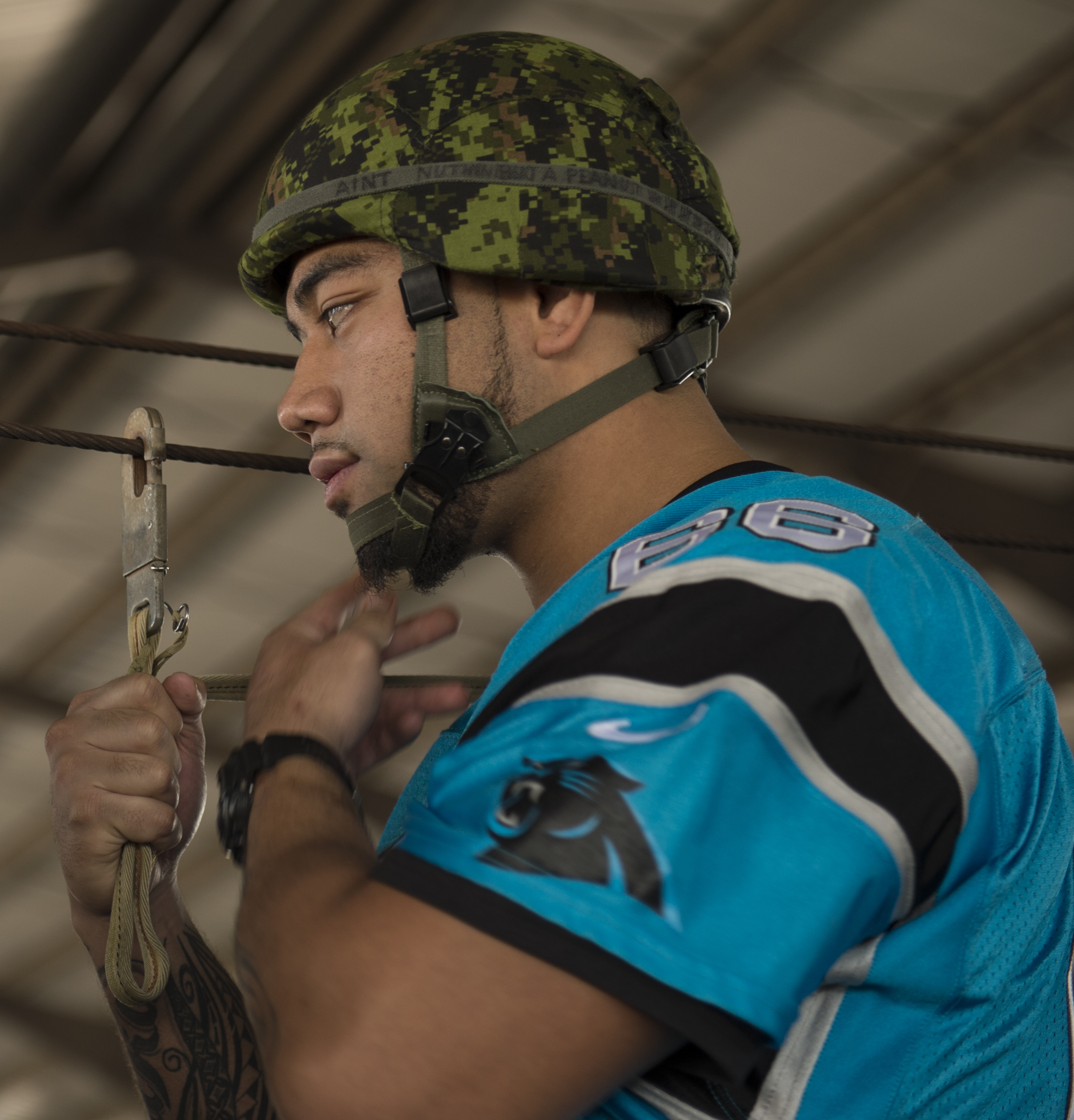 Amini Silatolu, Carolina Panther, learns proper jumping procedures during Operation Toy Drop, Fort Bragg, N.C., Dec. 6, 2013. The 16th Annual Randy Oler Operation Toy Drop, hosted by the U.S. Army Civil Affairs & Psychological Operations Command (Airborne), is the largest combined airborne operation in the world where Fort Bragg's paratroopers and allied jumpmasters donate toys to be distributed to children's homes and social service agencies across the local community. (U.S. Air Force photo by Airman 1st Class Logan Brandt/ Released)